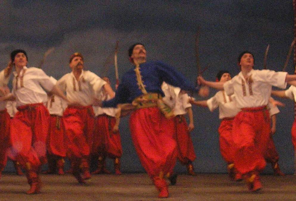 P. Virsky Ukrainian National Folk Dance Ensemble. Performens in Donetsk. April 30. 2006